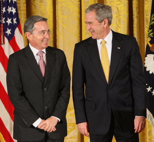 Colombian President Alvaro Uribe stands with US. President George W. Bush Tuesday, Jan. 13, 2009, during ceremonies honoring the 2009 Presidential Medal of Freedom Recipients in the East Room of the White House.